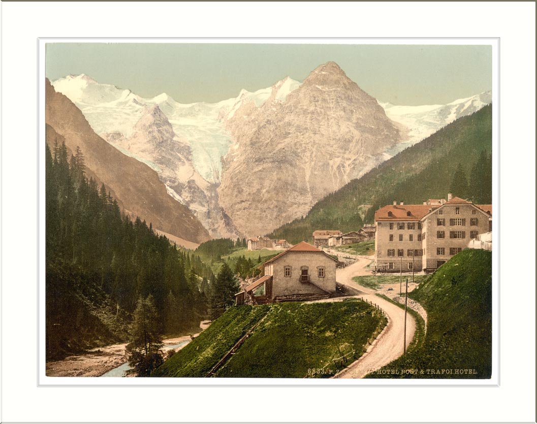 Trafoi Hotel and Post Tyrol Austro-Hungary